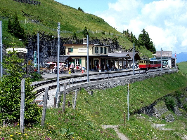 Jungfraubahnen, Schynige Platte station